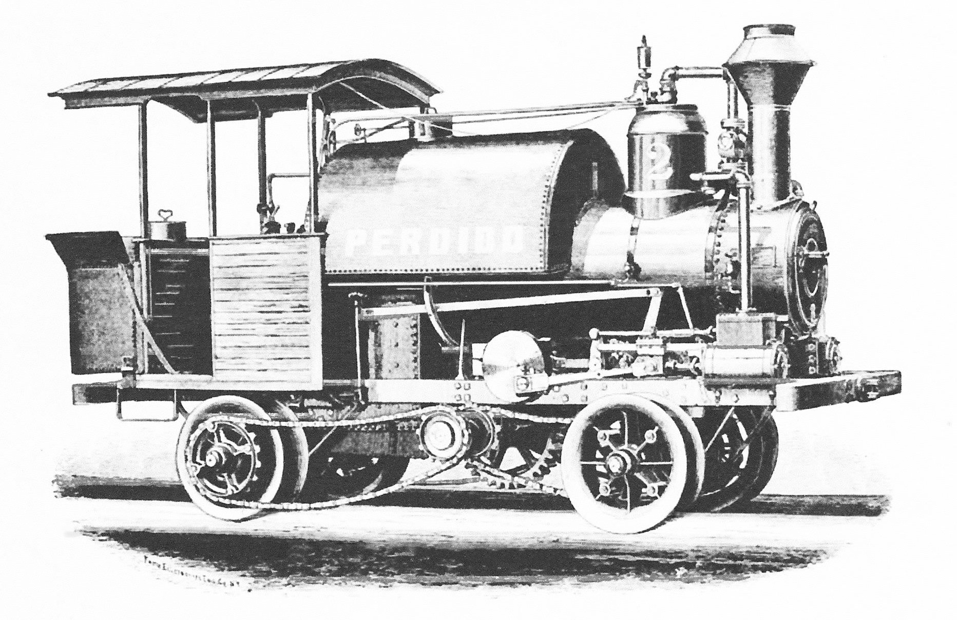 Engineer's printed illustration; side view of a locomotive